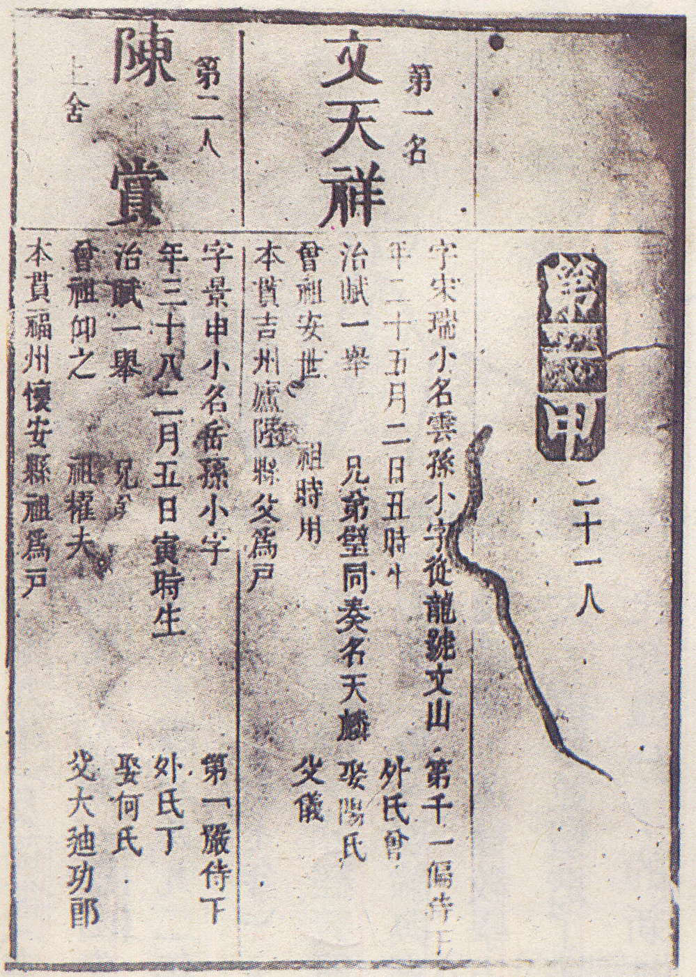 The ranking list of Jinshi examination in the Southern Song Dynasty. （Re-edition version at Ching Dynasty.）